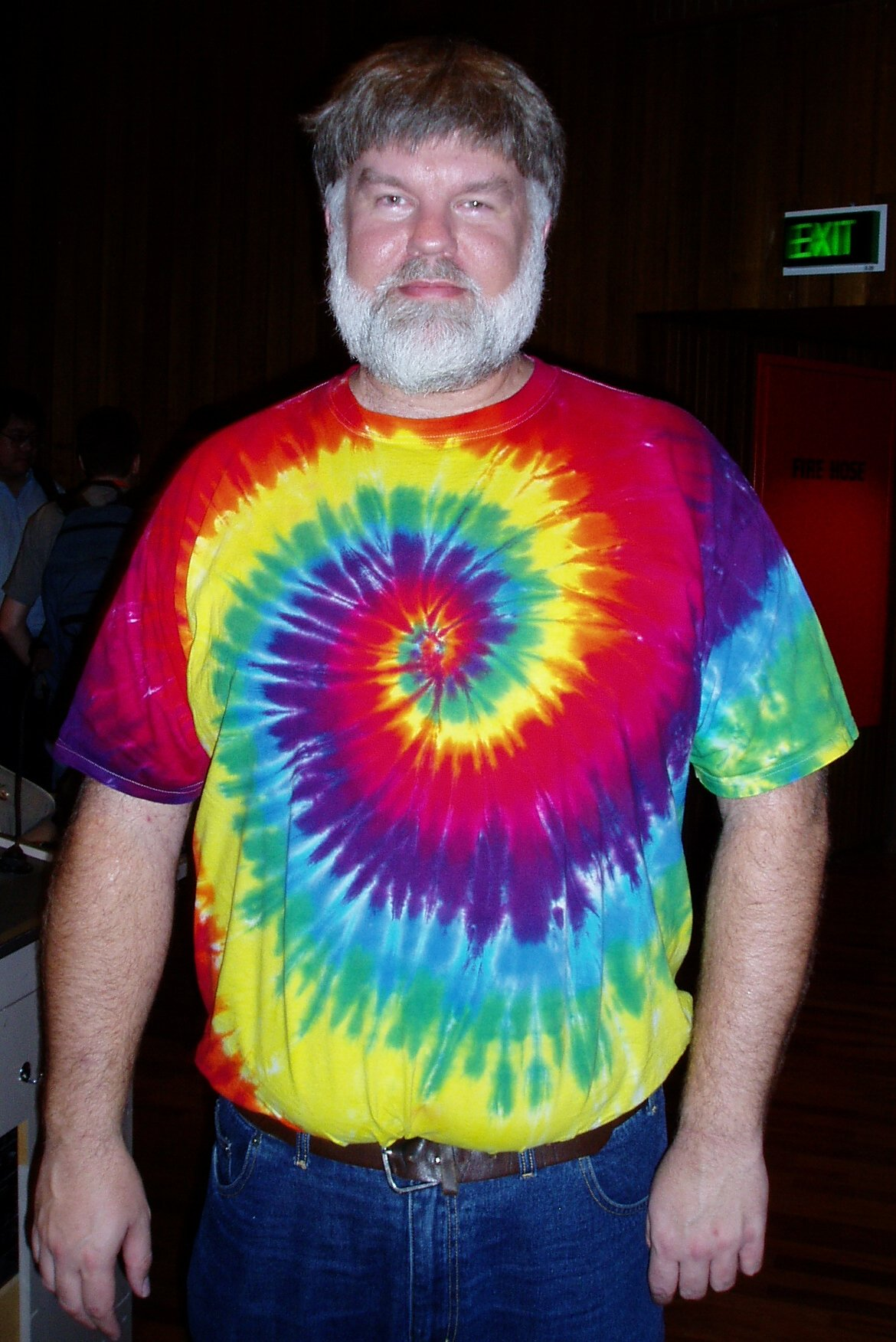 Bdale Garbee. Taken at in January 2007